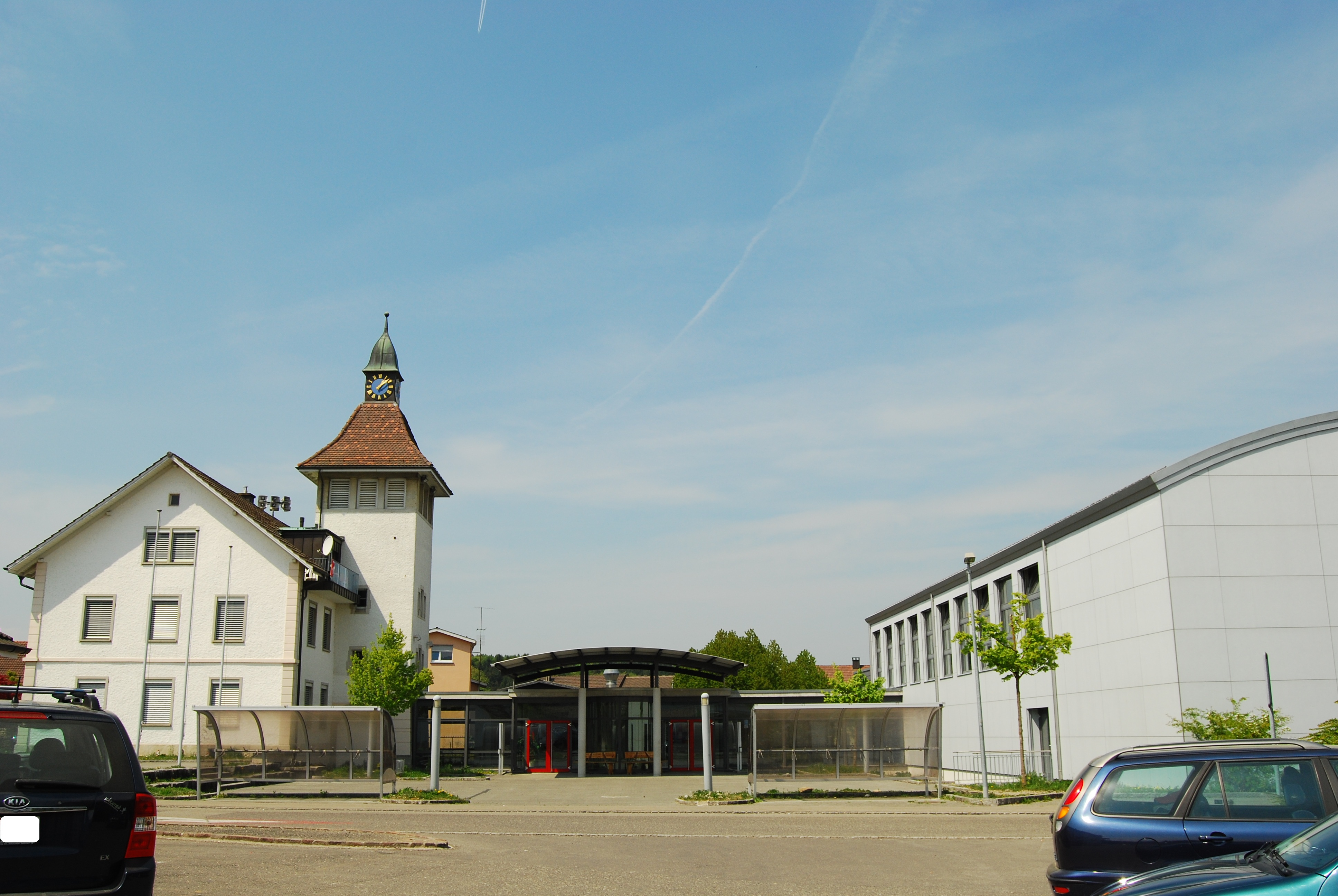 Holziken, canton of Aargau, Switzerland